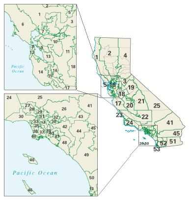 Image adapted from US fed gov't source Category:Congressional districts of California